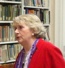 Photograph of Mary Kenny taken by me in Dublin in 2008.